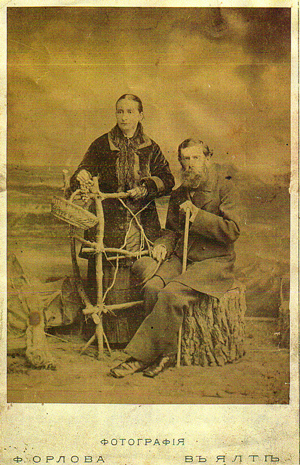 Golda and Dov miloslavski